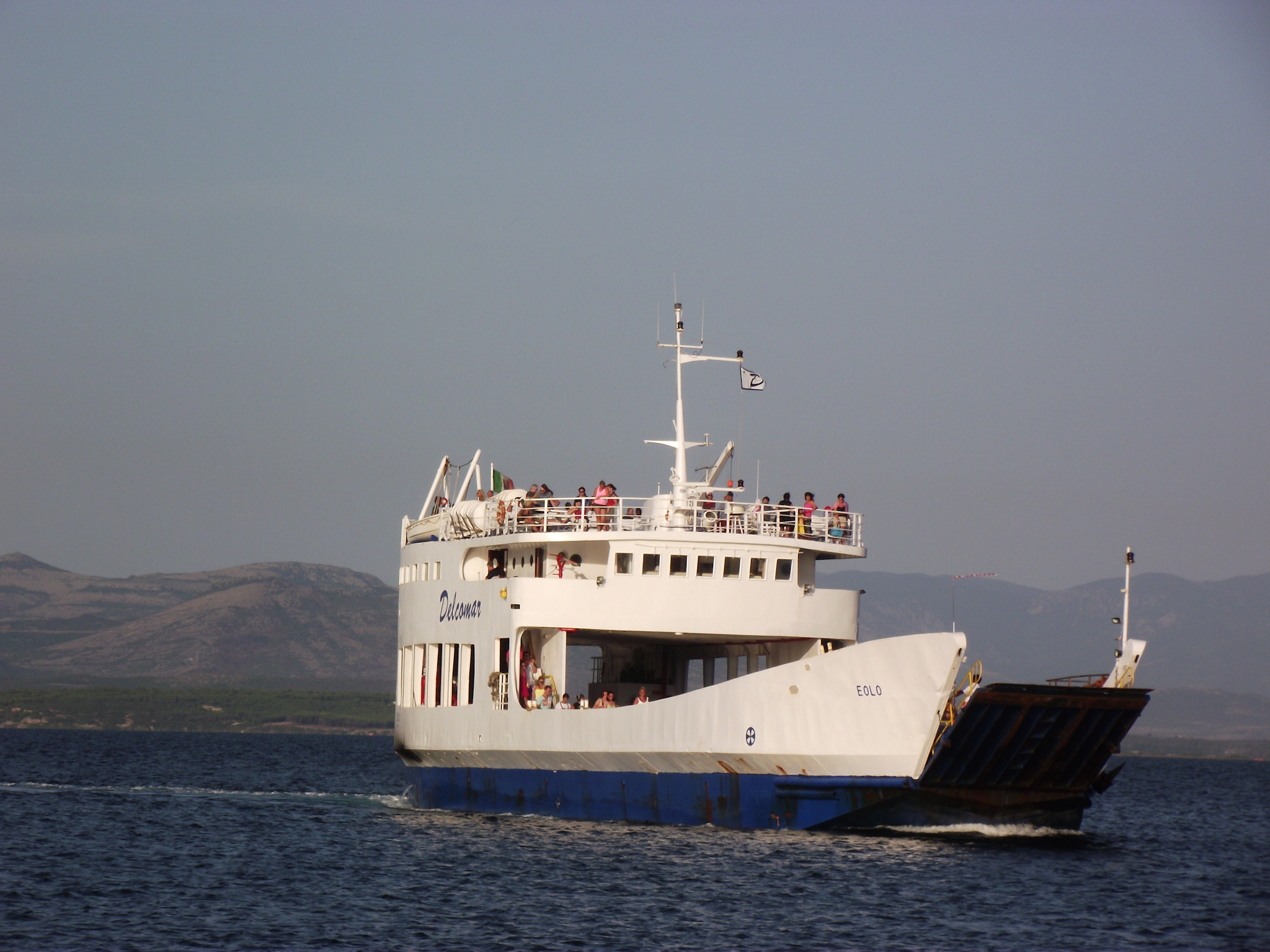 Eolo ferry of Delcomar shipping company, arriving at Calasetta from Carloforte, in Sardinia, Italy